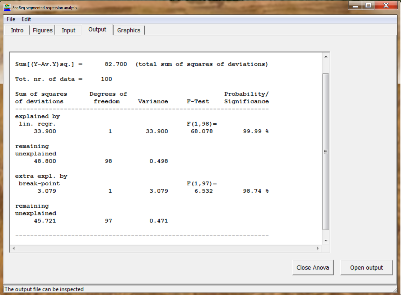 Screenshot of Anova table produced by free SegReg software for segmented regression